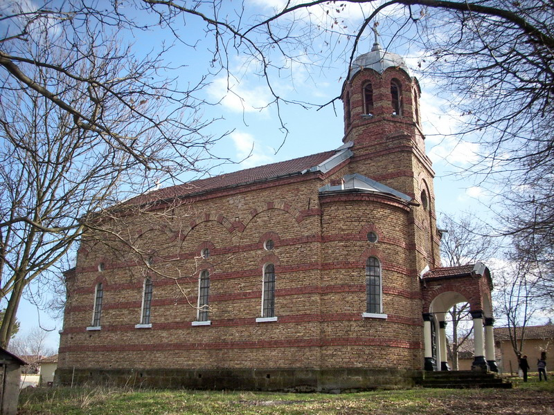 The church of village Zvezda, Popovo Municipality, Targovishte District, Bulgaria